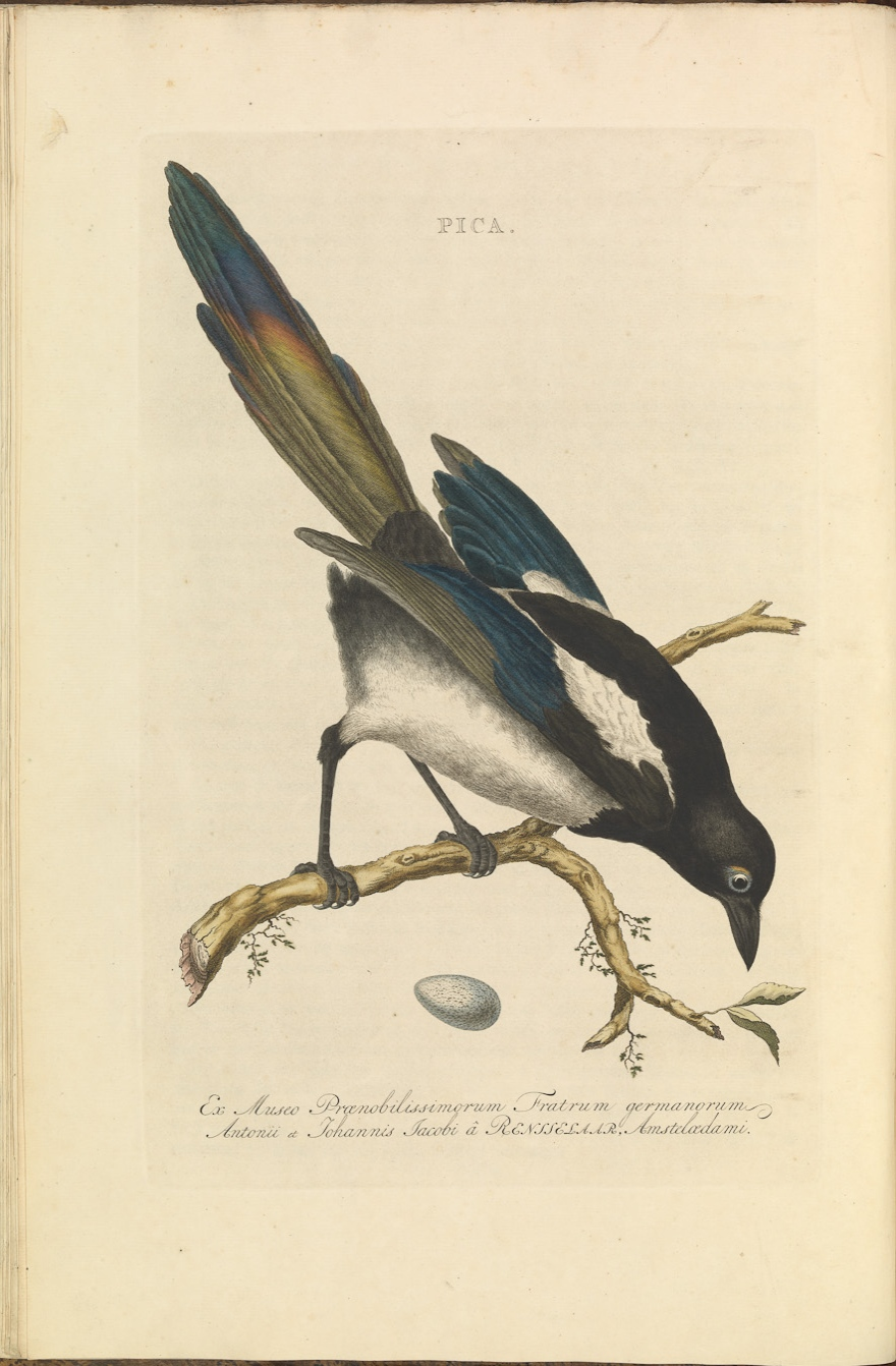 Plate 2 from the Nederlandsche vogelen by Nozeman and Sepp.